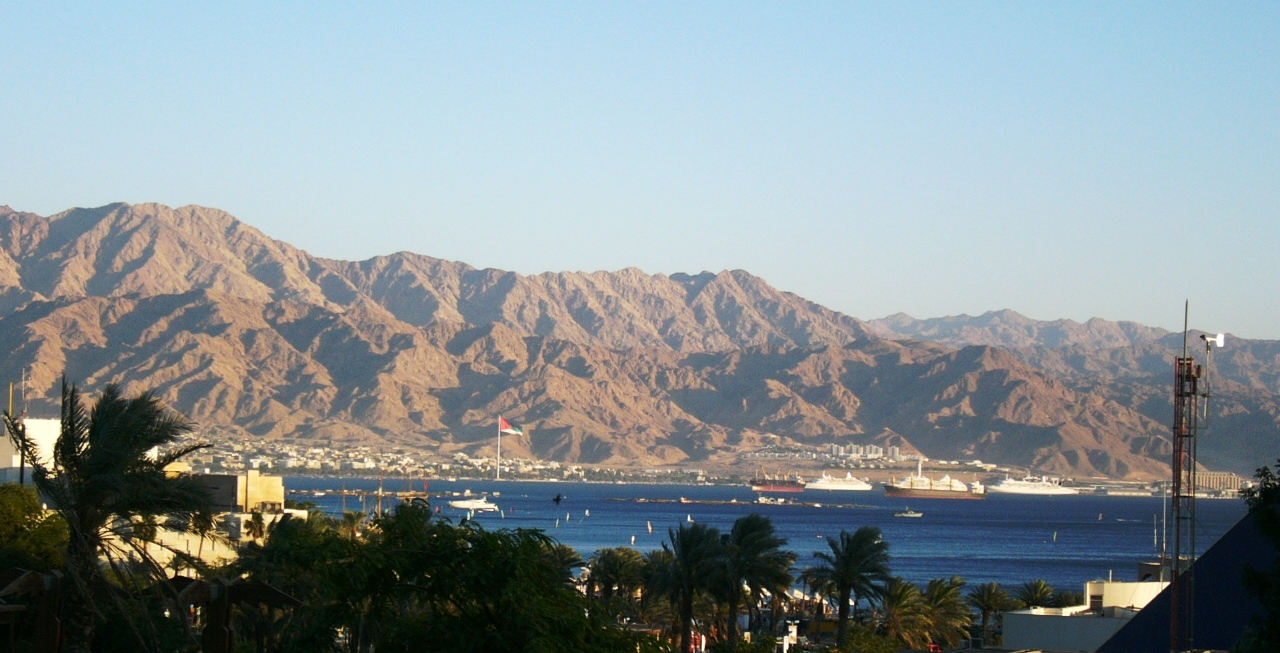 Aqaba view from Eilat.